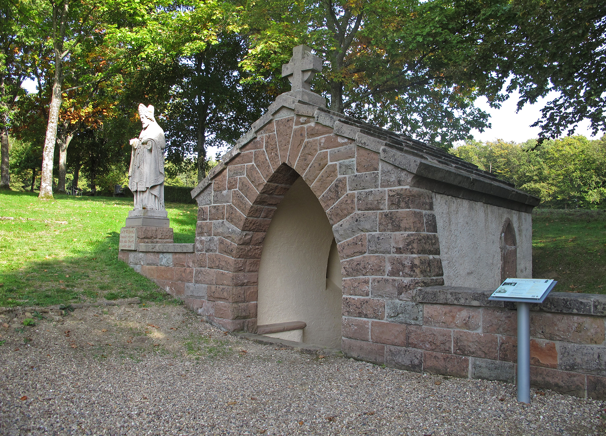 Willibrordus chapel and statue on the Helperknapp, Luxembourg